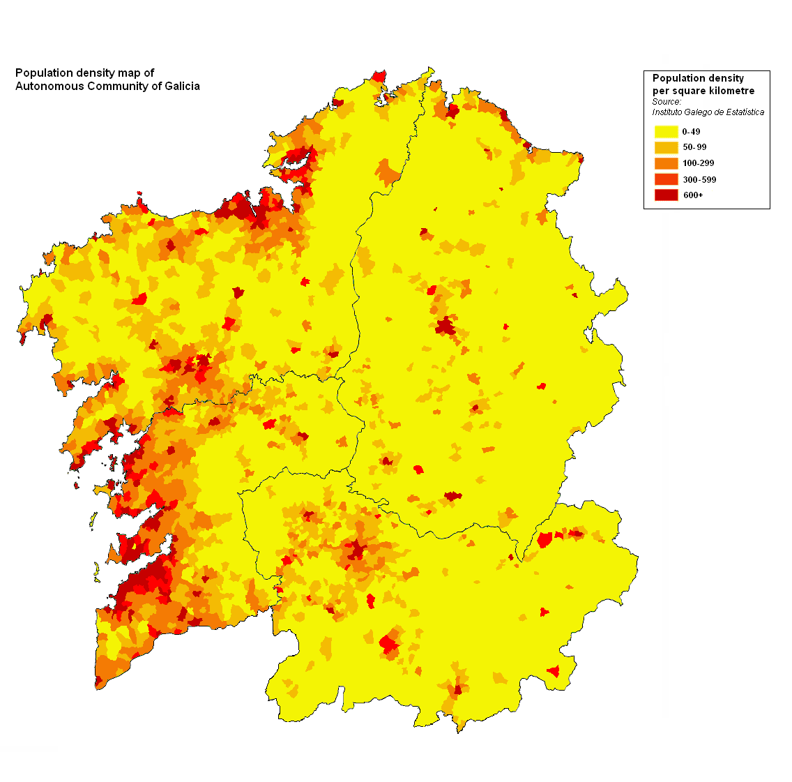 Population density of the Autonomous Community of Galicia (Spain), with data from "parishes" (submunicipal divisions of Galicia), which shows a more realistic representation of demographics than those taken from data of whole municipalities.